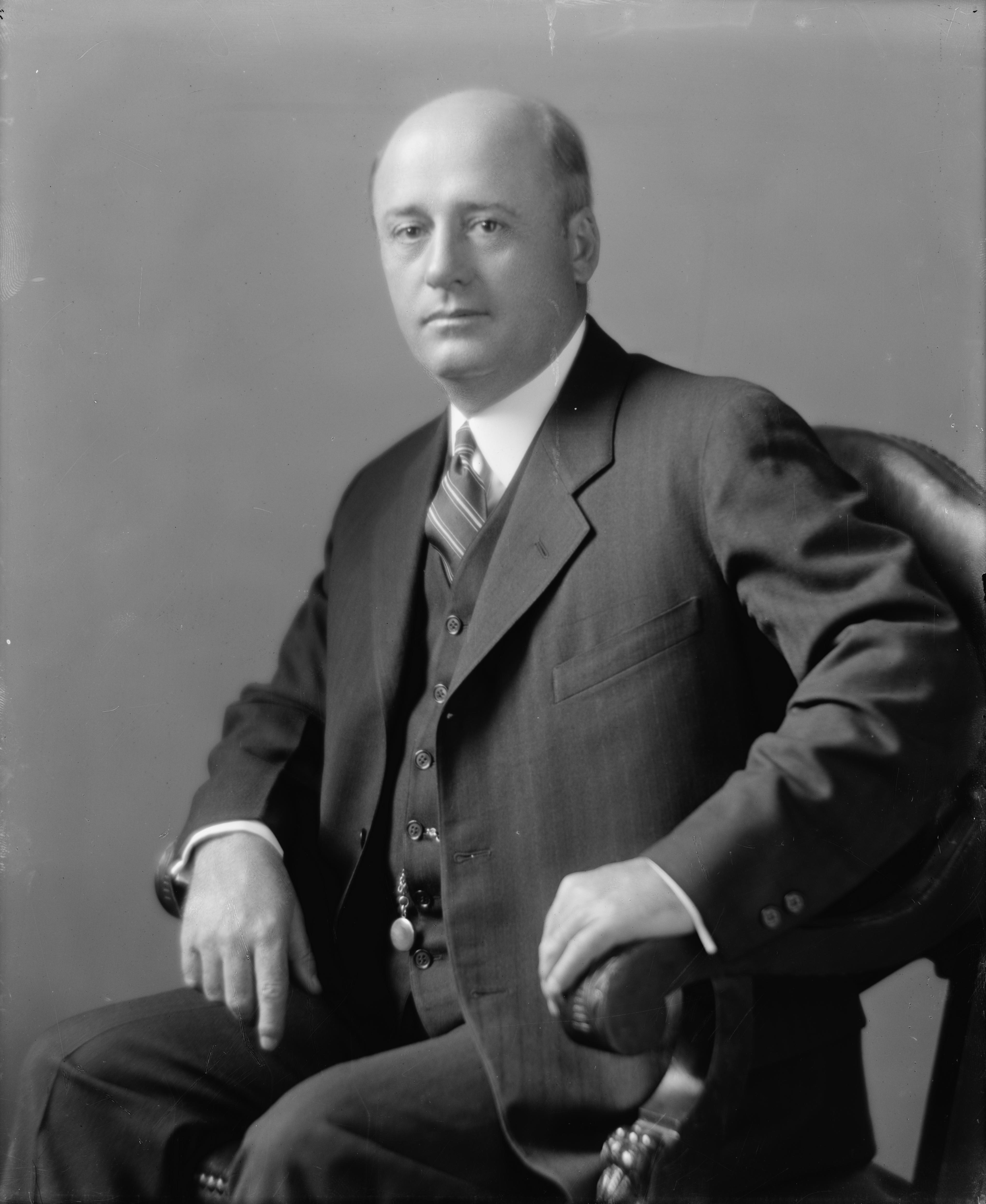 House Majority Leader Sam Rayburn seated